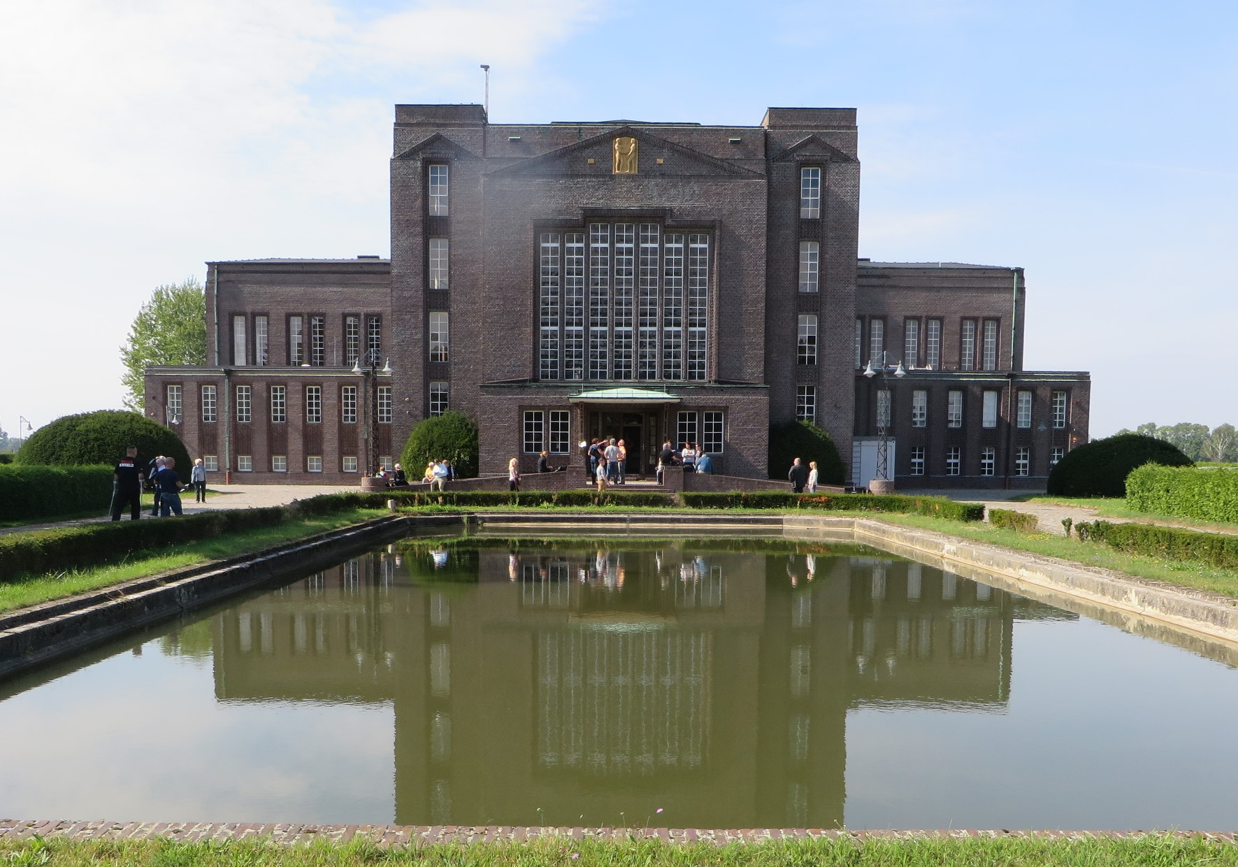 Main building of Großfunkstelle Nauen Hermann Muthesius